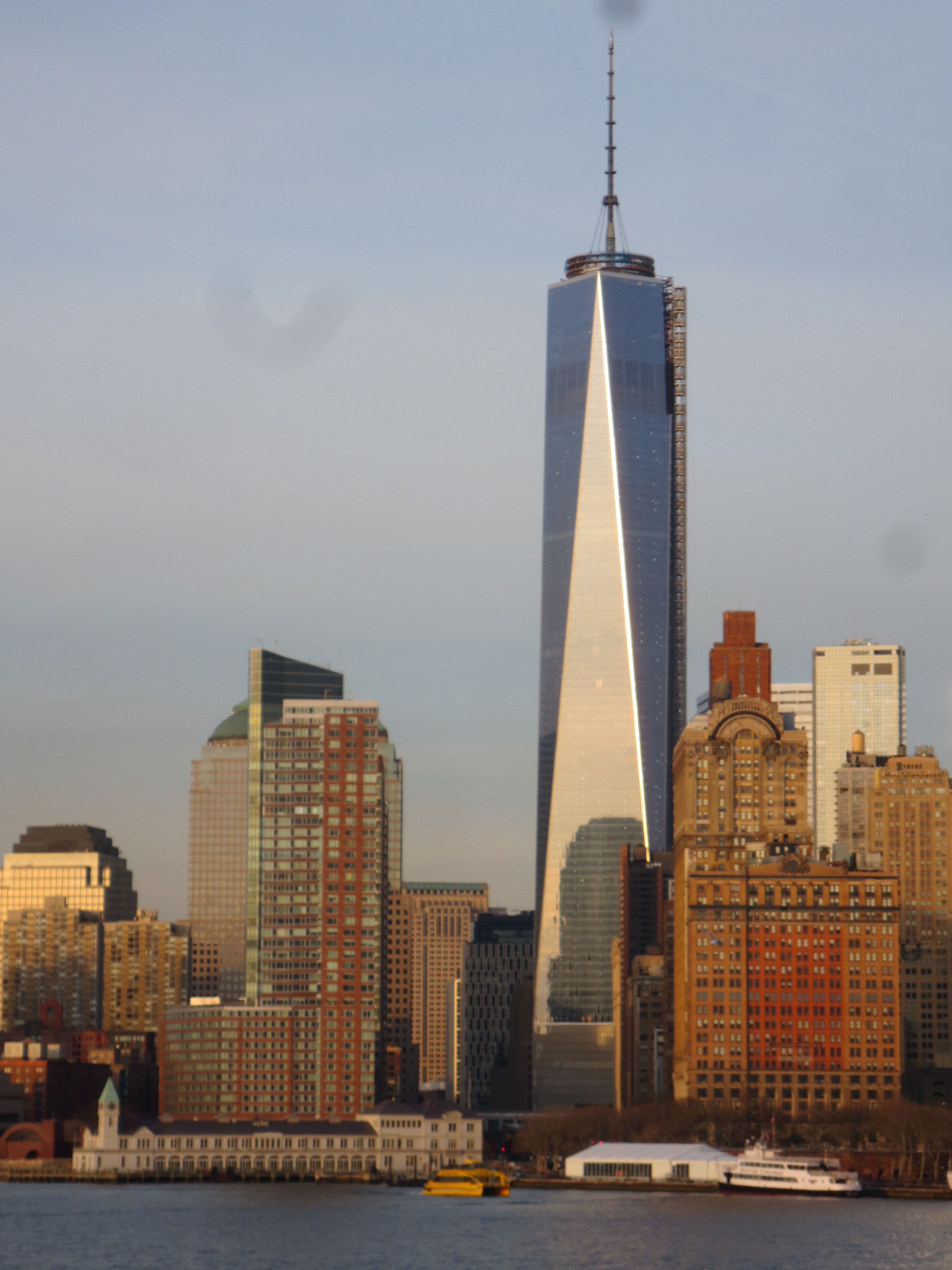 Photograph of the Freedom Tower taken from the Upper Bay, November, 2013.